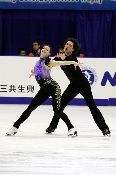 Tessa Virtue and Scott Moir at the 2016 NHK Trophy